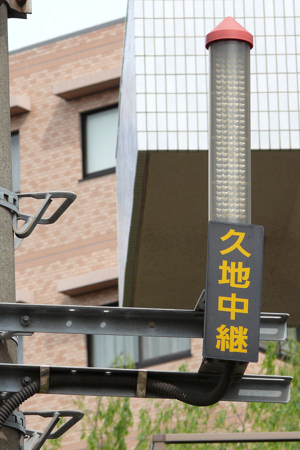 This is a part of level crossing safety system, blink LEDs if find abnormality status on the crossing.